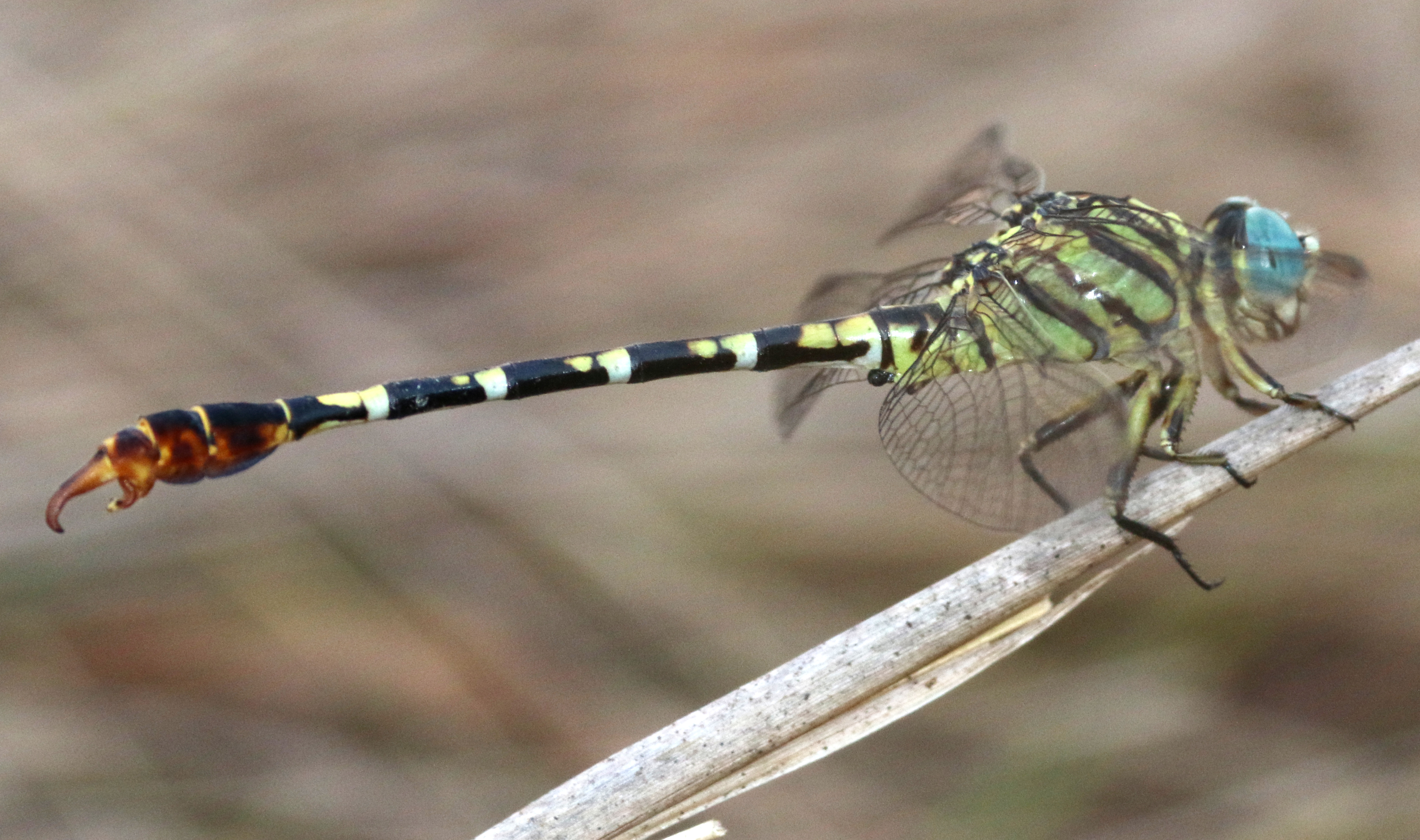 Paragomphus lineatus Lined Hooktail, Common Hooktail